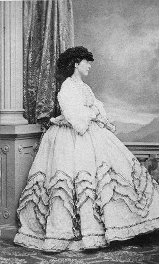 Archduchess Elisabeth Franziska (1831-1903) wearing a crinoline and feathered hat